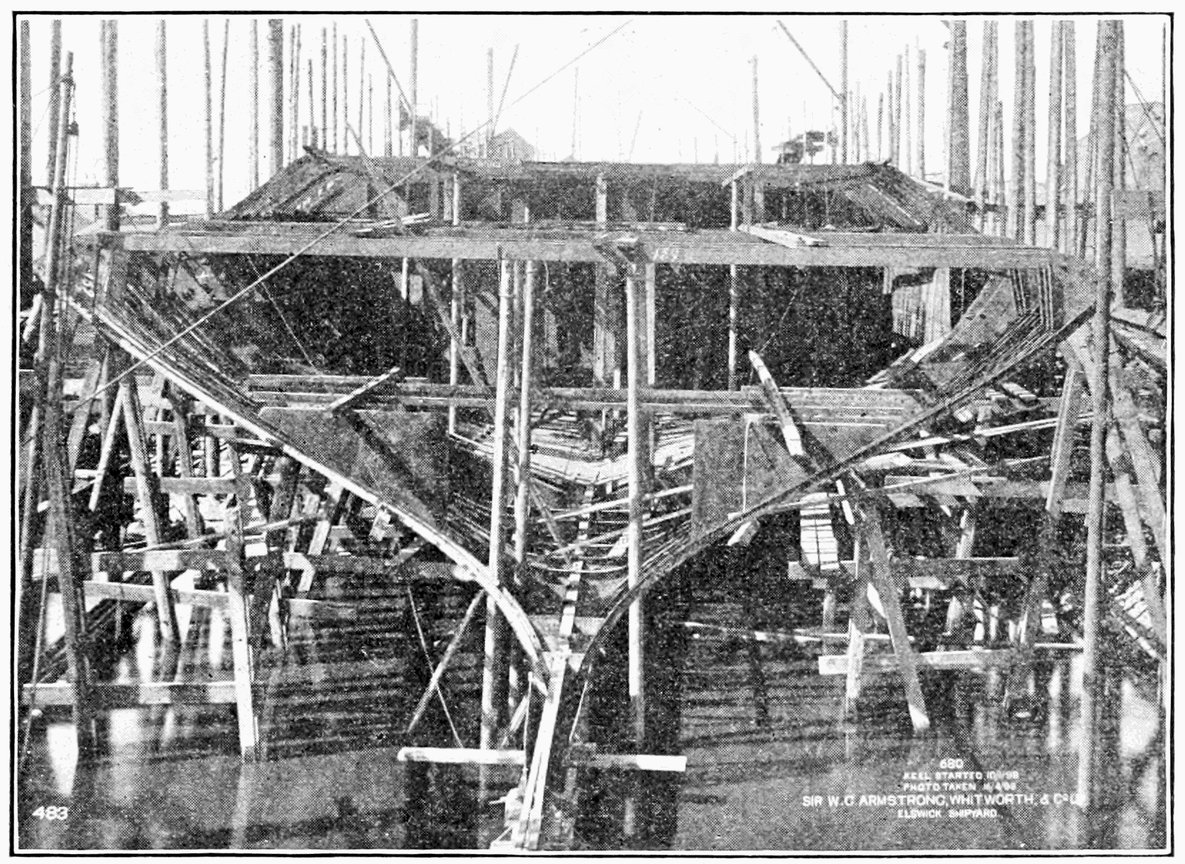 Battleship Hatsuse three months after keel laid